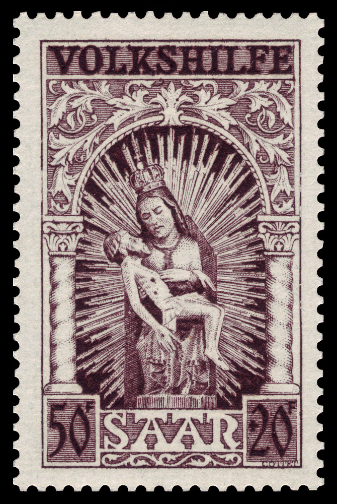 Volkshilfe, additional social fees